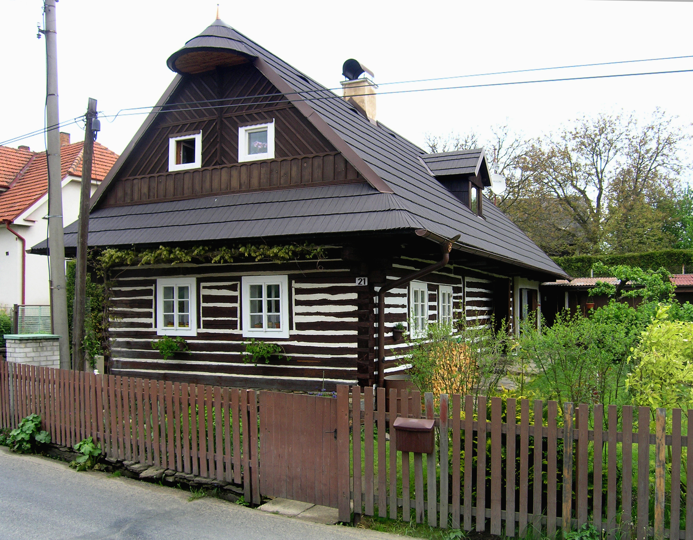 Miřátky, part of Vepříkov village, Czech Republic